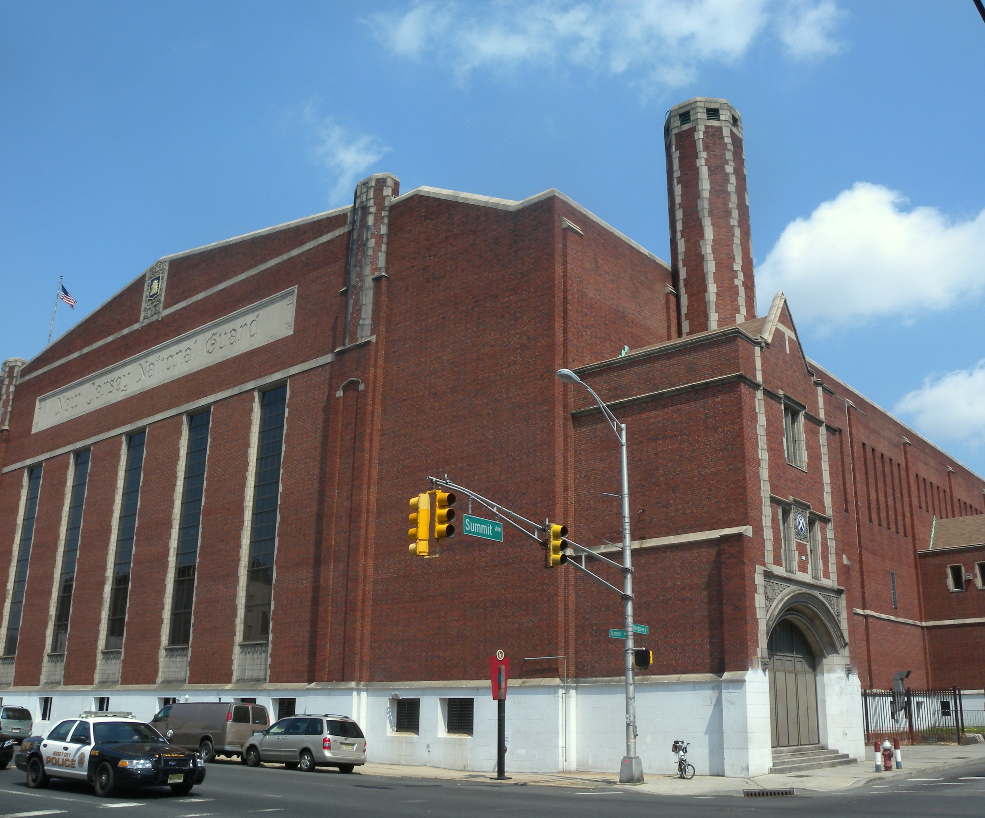 Looking northwest across Summit and Montgomery Street at armory on a sunny midday.